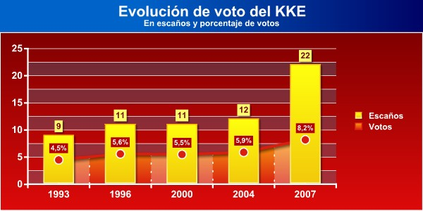 Electoral evolution of KKE (Seats and % of votes).